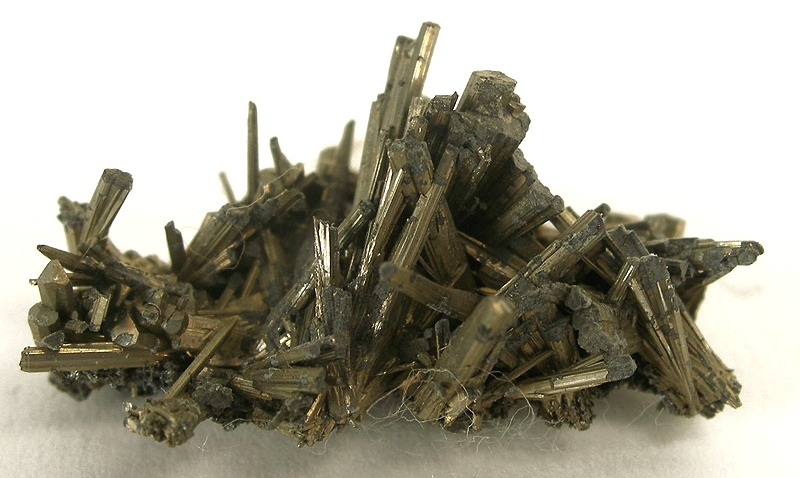 Millerite Locality: Friedrich Mine, Schönstein, Wissen, Siegerland, Rhineland-Palatinate, Germany (Locality at ) Size: thumbnail, 2.1 x 1.2 x 1.2 cm Millerite A superb thumbnail of robust millerite crystals from this very classic, old locale. Certainly a specimen from the 1800s. This comes with original label from the Smithsonian Institution numbered B1602 - an early specimen from the noted collection of Carl Bosch. Ex. John White Collection.